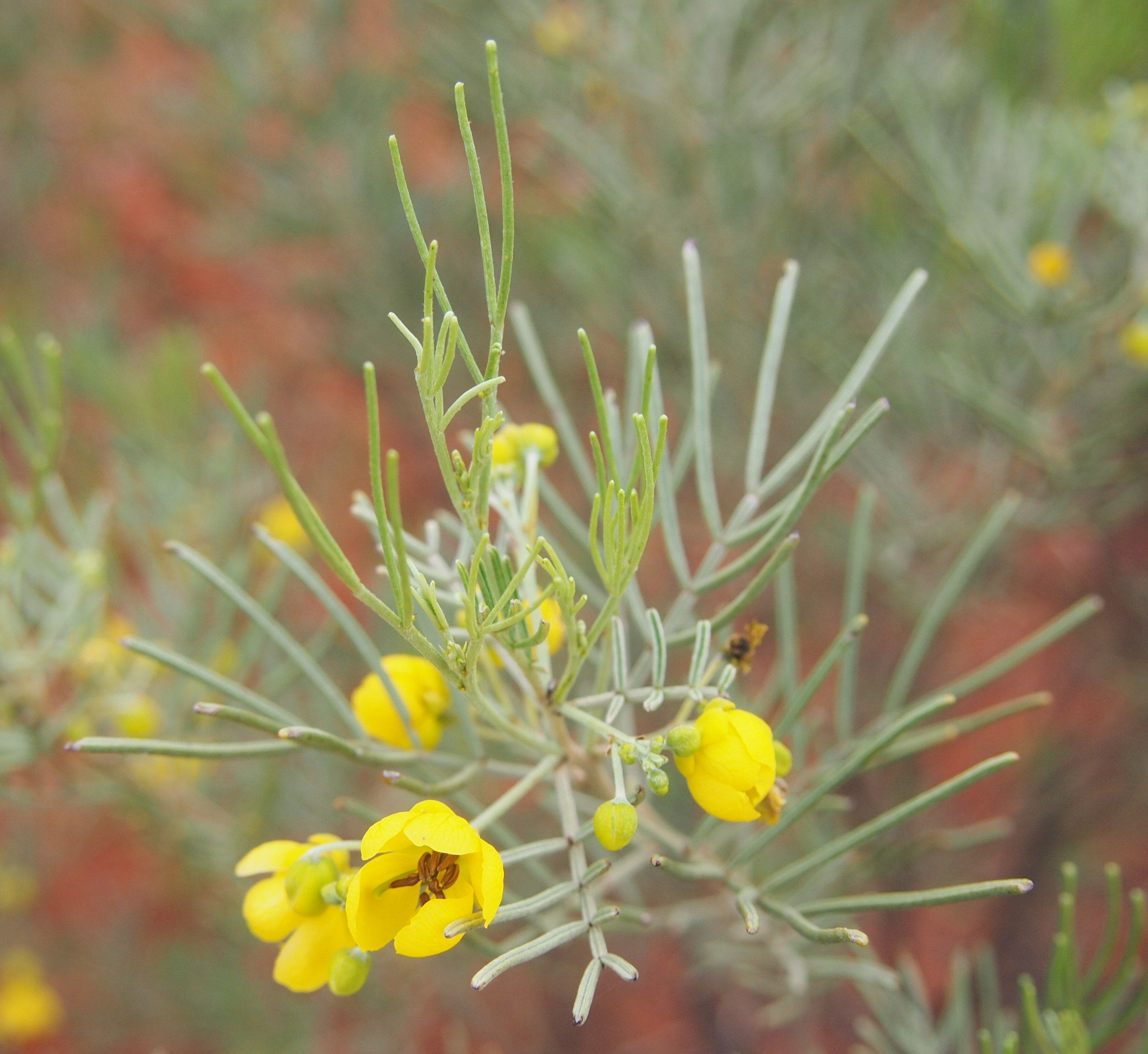 Senna artemisioides spp artemisioides flowers and foliage